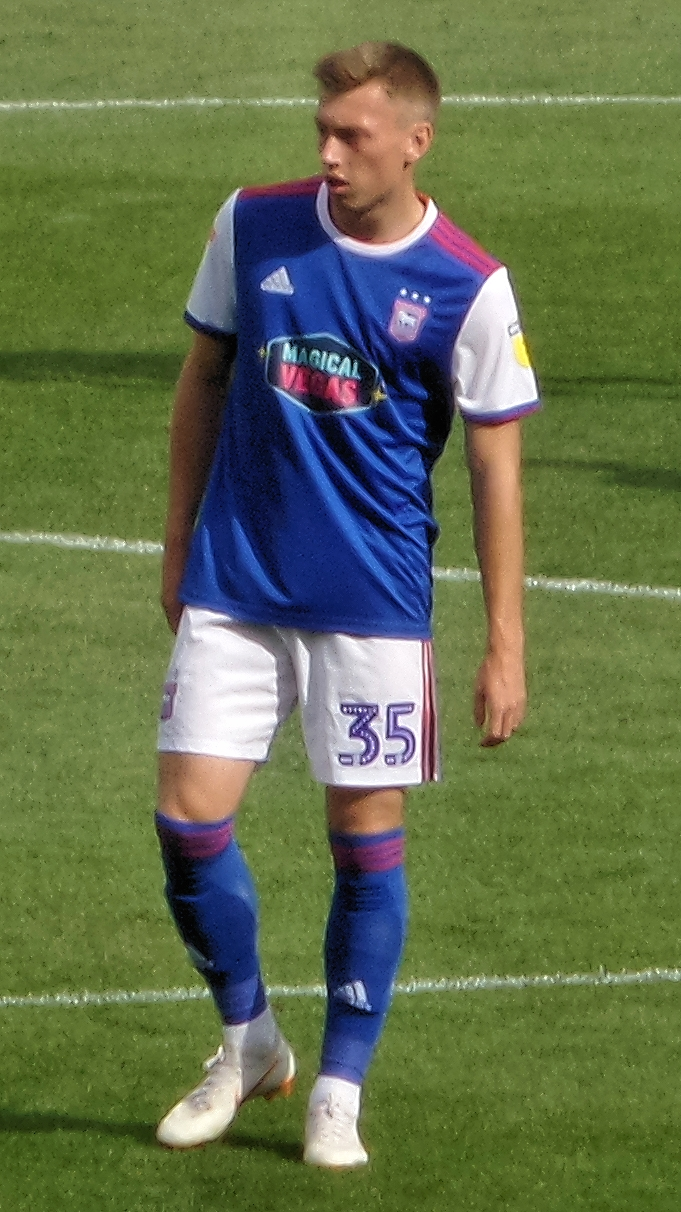 Ben Morris playing for Ipswich Town against Blackburn Rovers on 4 August 2018